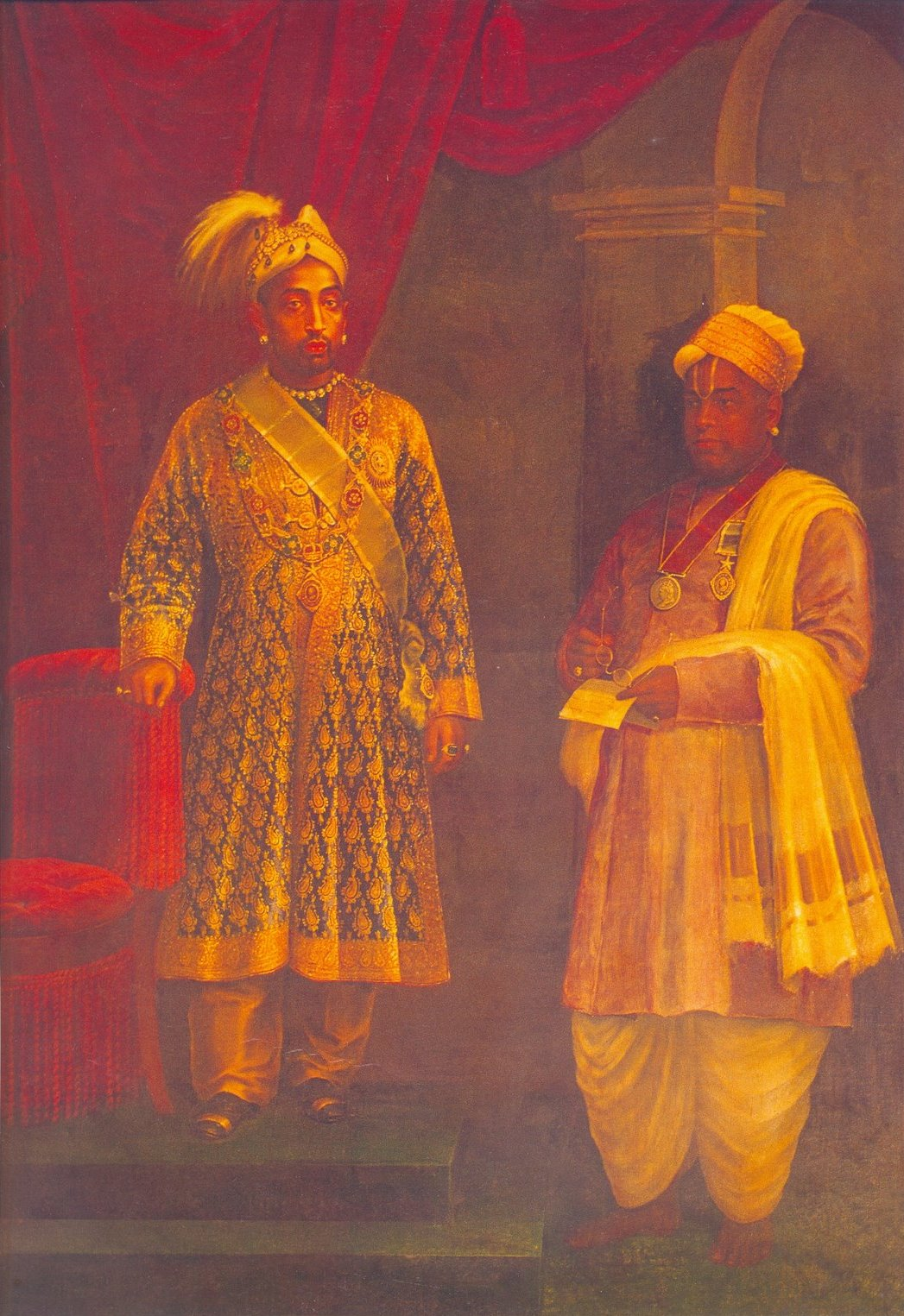 Visakham Thirunal Rama Varma who was the Maharaja of the erstwhile Indian kingdom of Travancore from 1880-1885 C.E., with his Divan